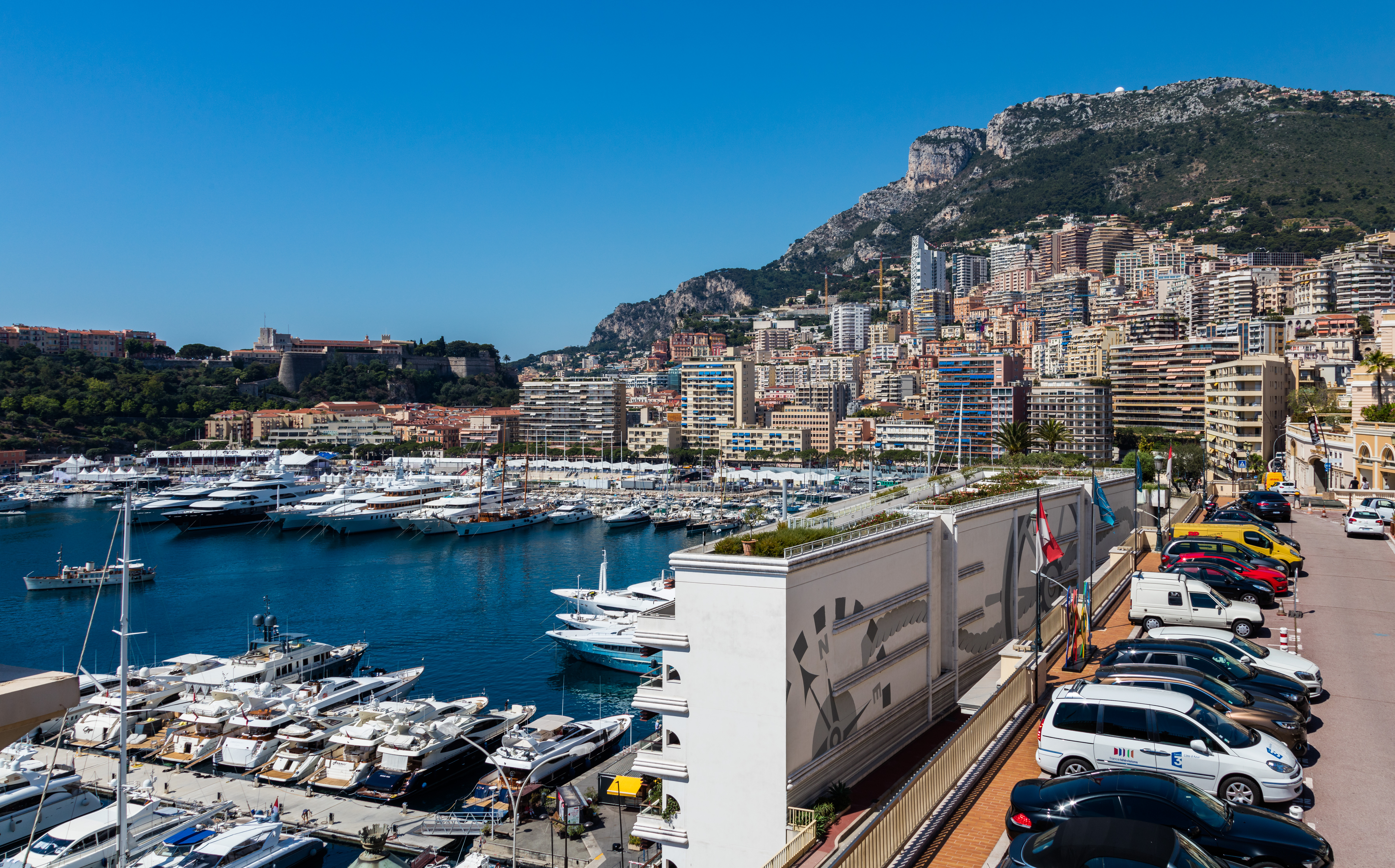 View of Monaco